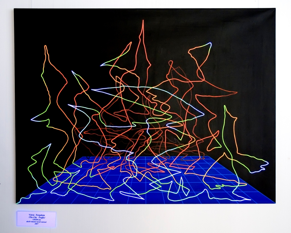 Geometry II.